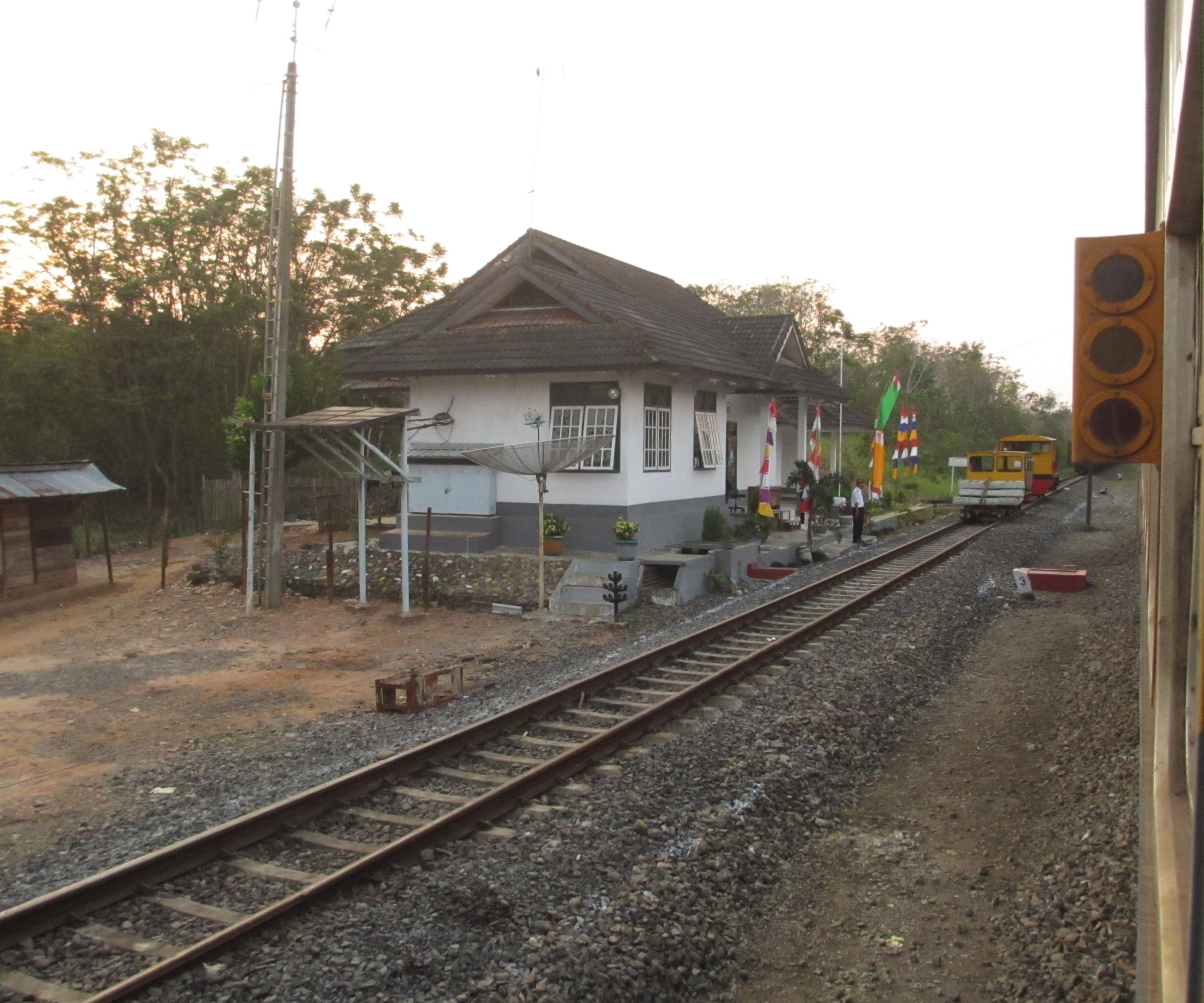 Tanjungrambang Railway Station.